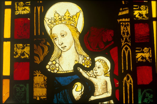 Mediaeval Stained Glass Image of the Virgin & Child, St James Church, High Melton